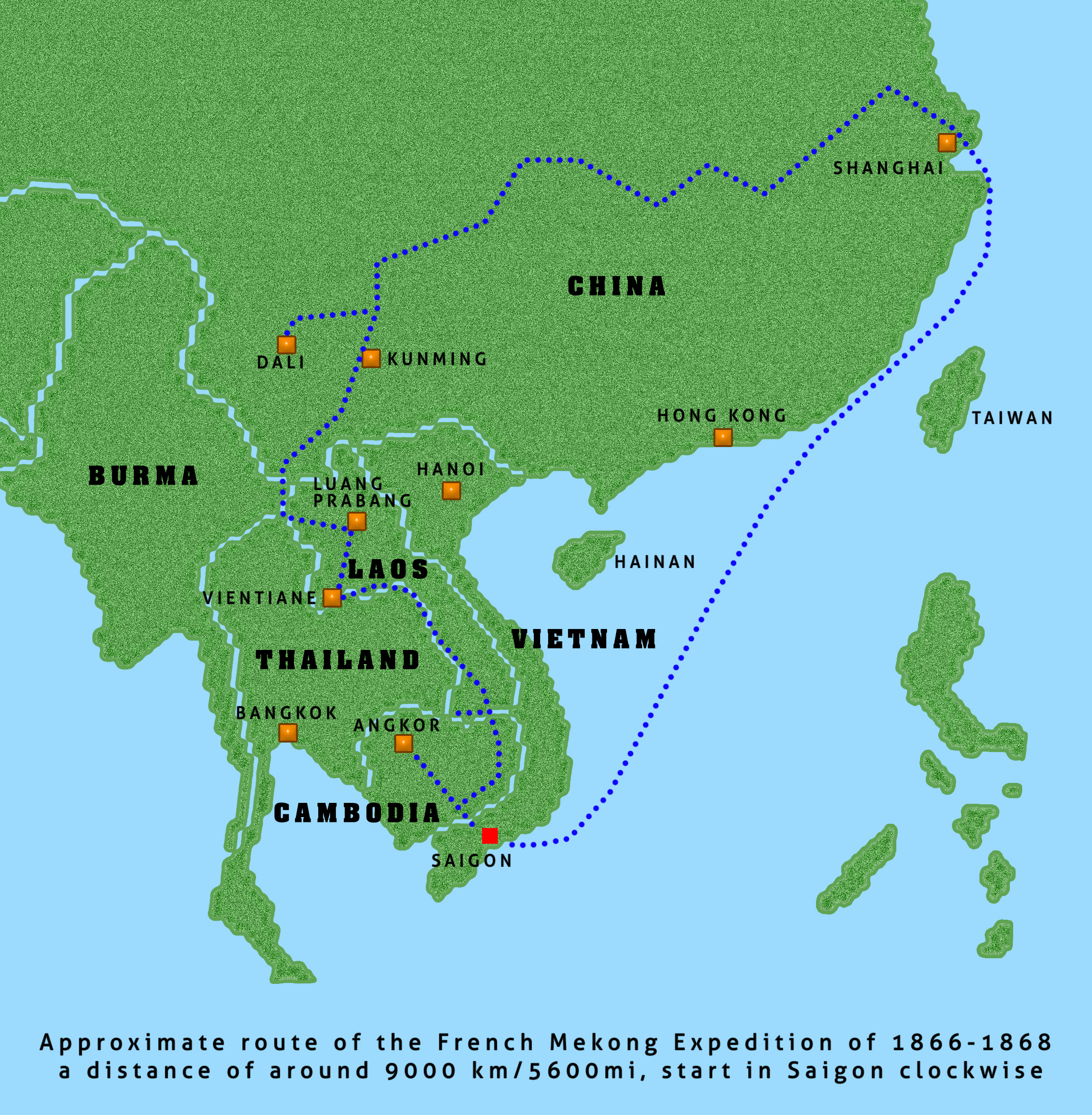 Approximate route of the French Mekong Expedition of 1866-1868 a distance of around 9000 km/5600mi, start in Saigon, clockwise